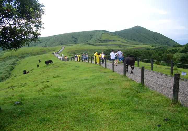 Qingtiangang Grassland after heavy rain.Bân-lâm-gú: 雨拄落了的大嶺牧場。